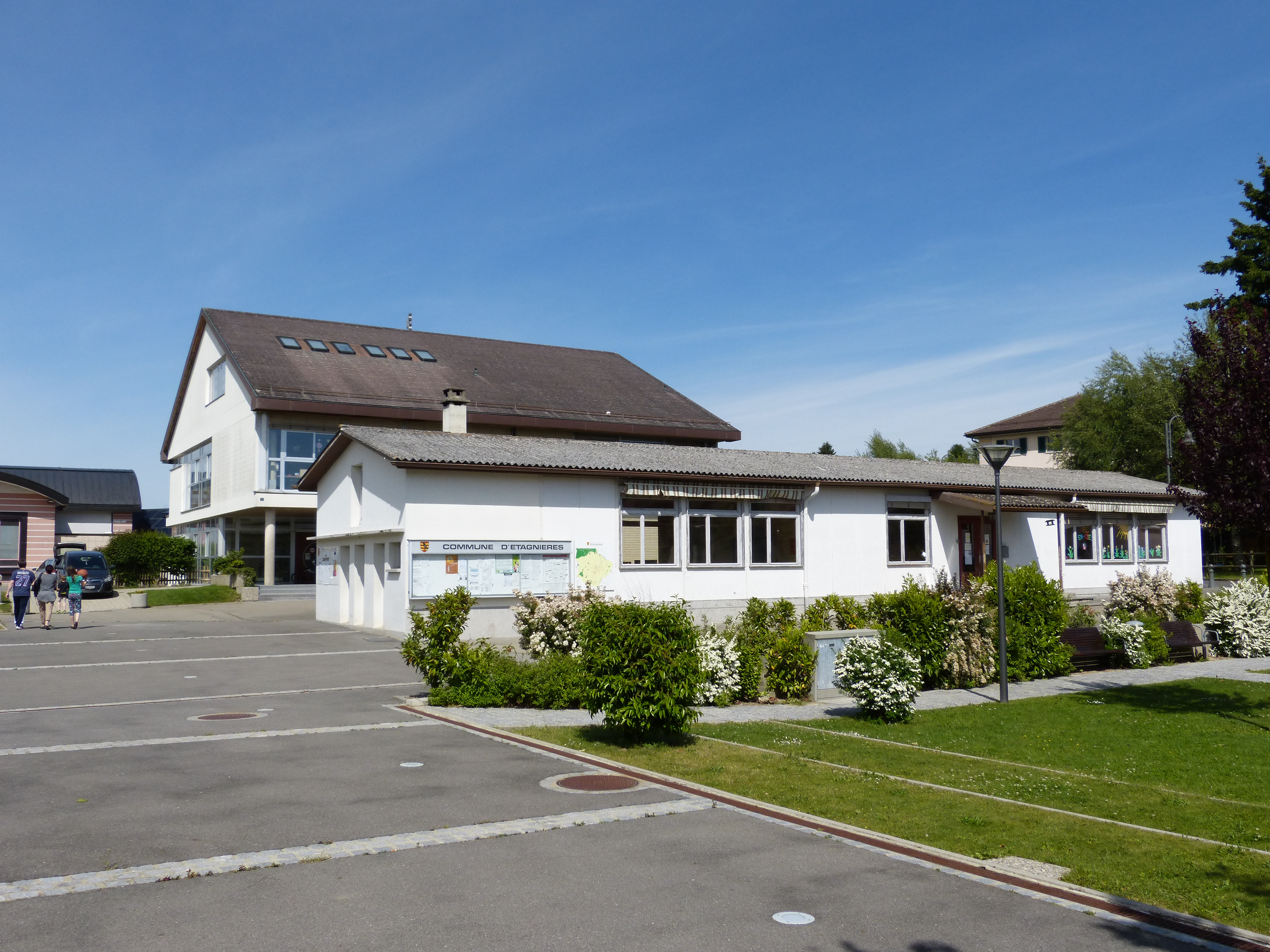 Primary school in Étagnières.